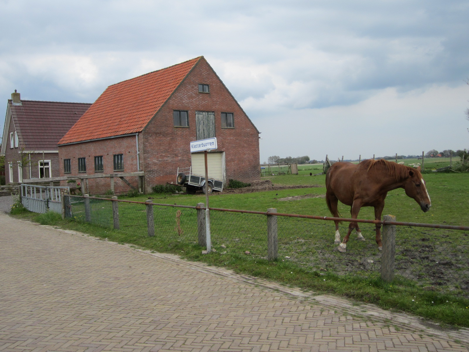 Hamlet Kletterbuurt (Fries: Kletterbuorren), near village Holwerd, county Friesland, The Netherlands